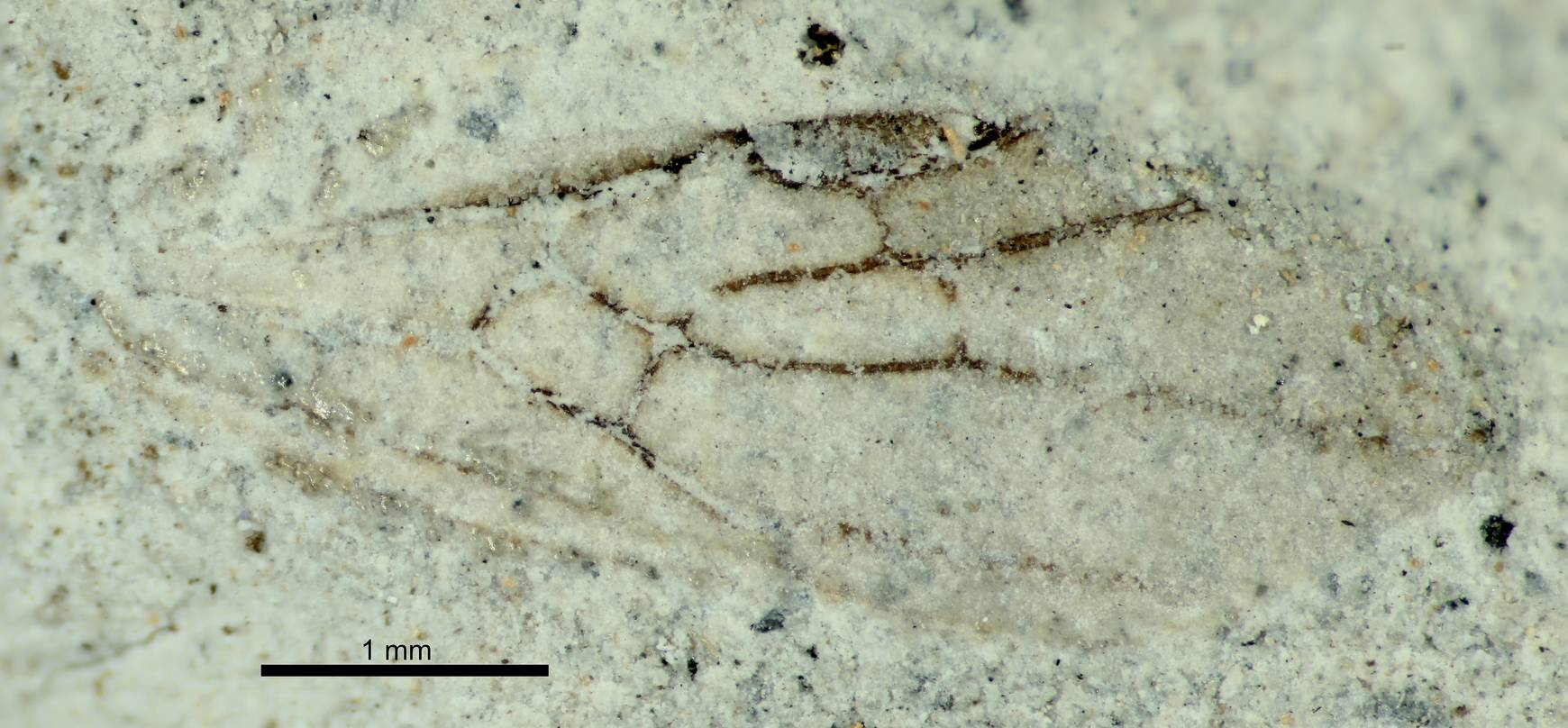 Closeup of Emplastus hypolithus specimen wing. Natural History Museum, London specimen BMNHP24988